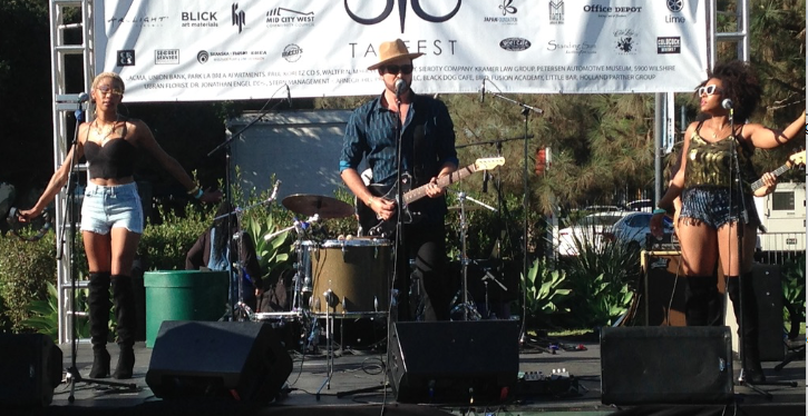 Jazmen Safina, Jesse Nolan, and Jasmine N. Jamison fronting Caught a Ghost at Tarfest, September 2018, Los Angeles, California.